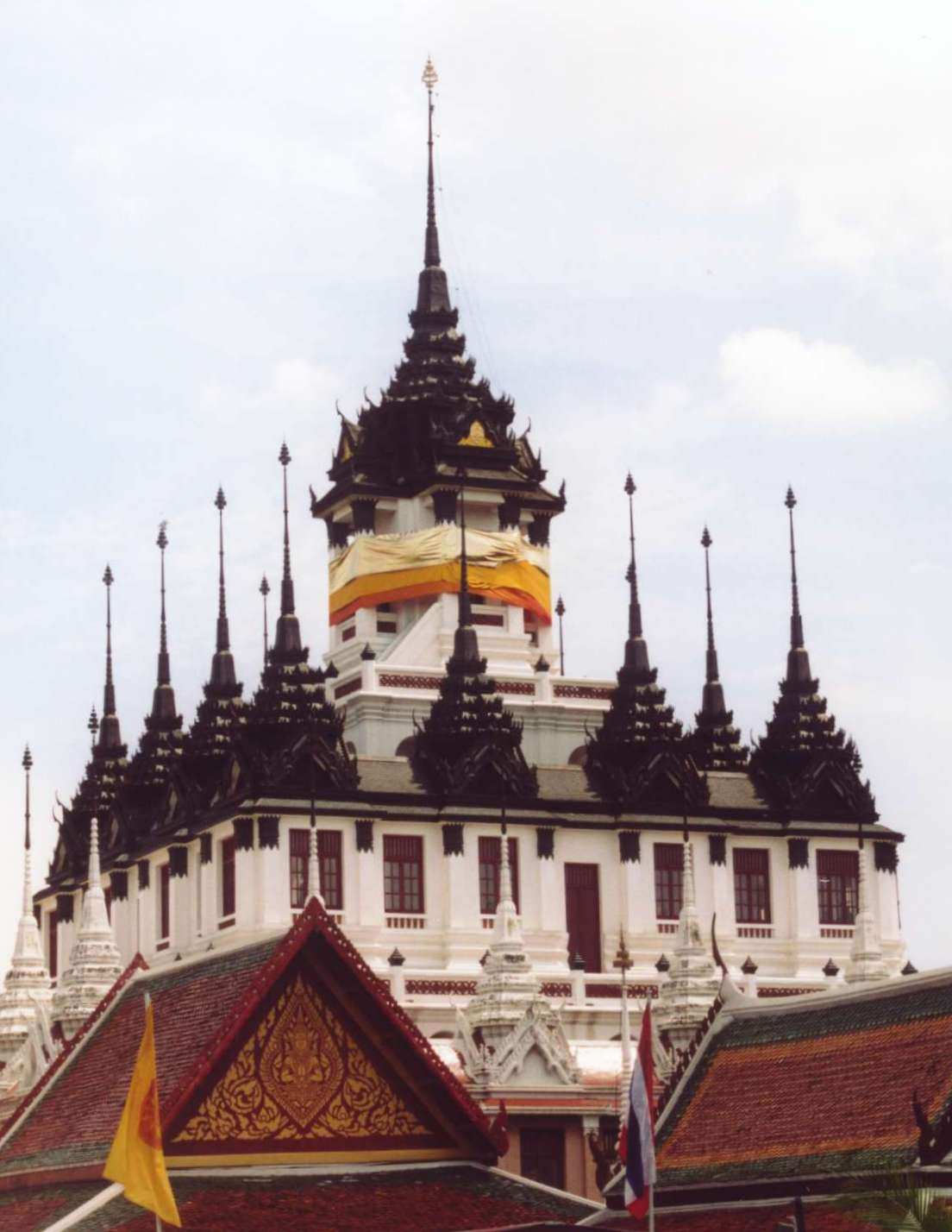 Loha Prasat (โลหะปราสาท), Wat Ratchanadda (วัดราชนัดดา or วัดราชนัดดารามวรวิหาร), Bangkok. Photo taken by User:Ahoerstemeier on July 12 2003.